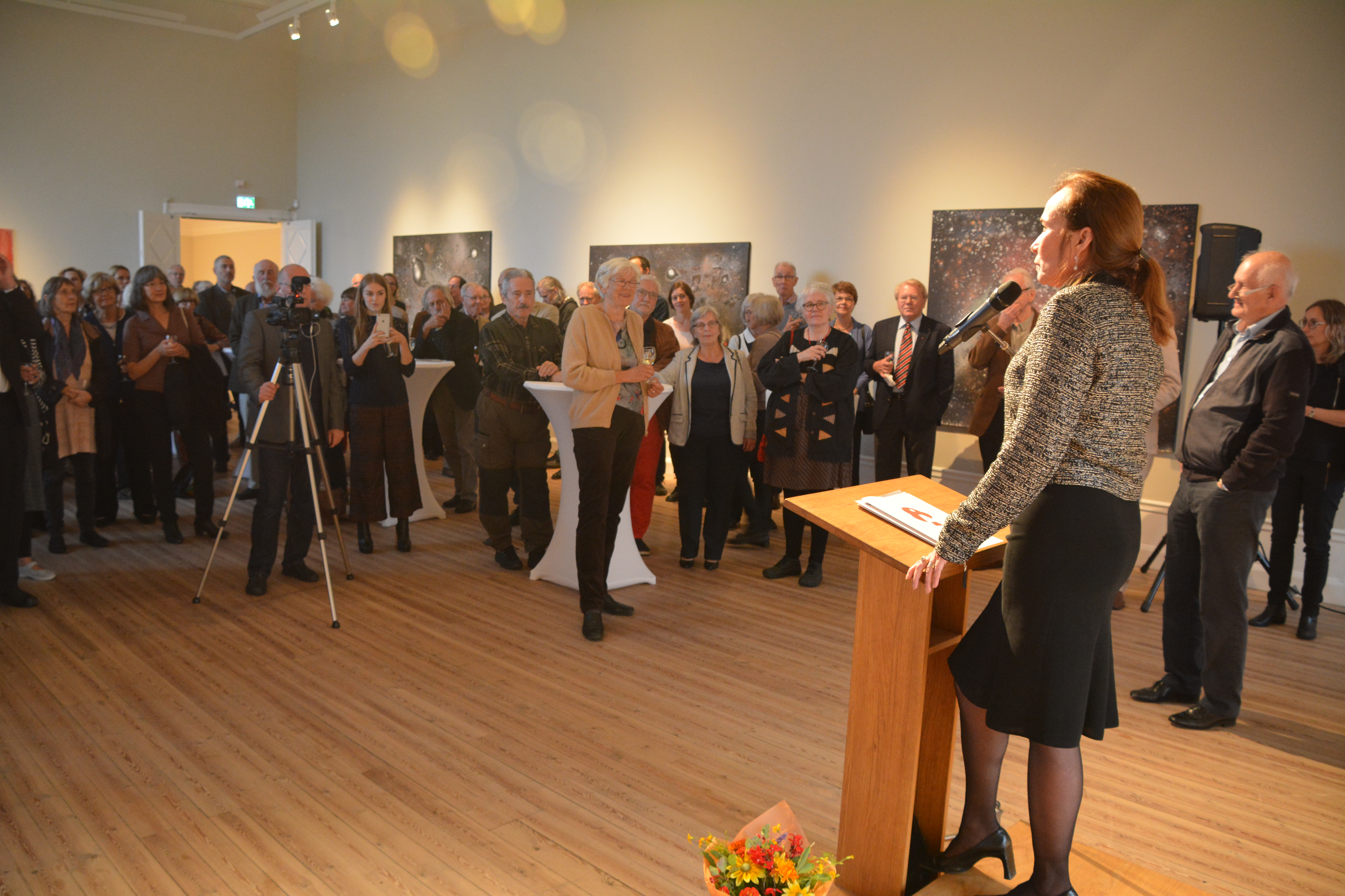 Åke Andrén prize ceremony 2015. Karin Sidén to the right